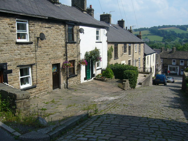 Church Brow Church Brow in Chapel-en-le-Frith, a steep cobbled street that runs from the church to Market Street. A brochure for the town describes it as "Chapels answer to Gold Hill in Dorset, famous for the Hovis ads".